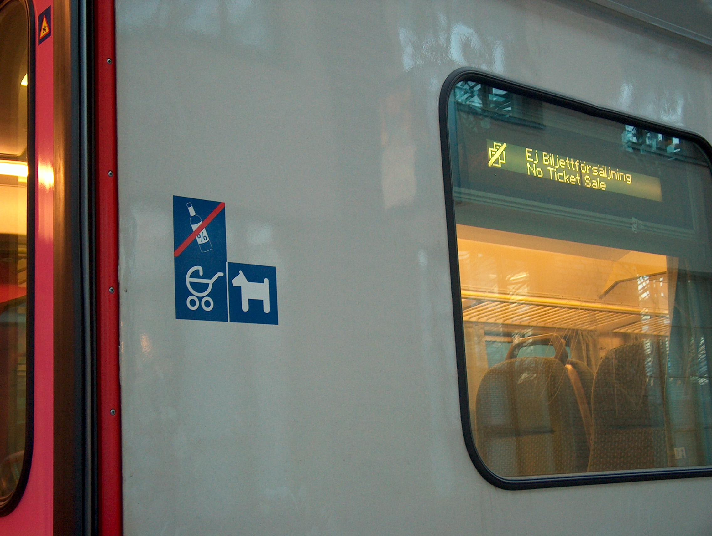 Baby carriages and dogs allowed on this carriage - no drinking